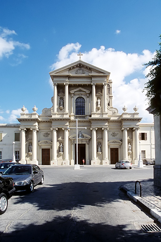 Franciscan church of the St. Catherine, western entrance, Alexandria, Egypt